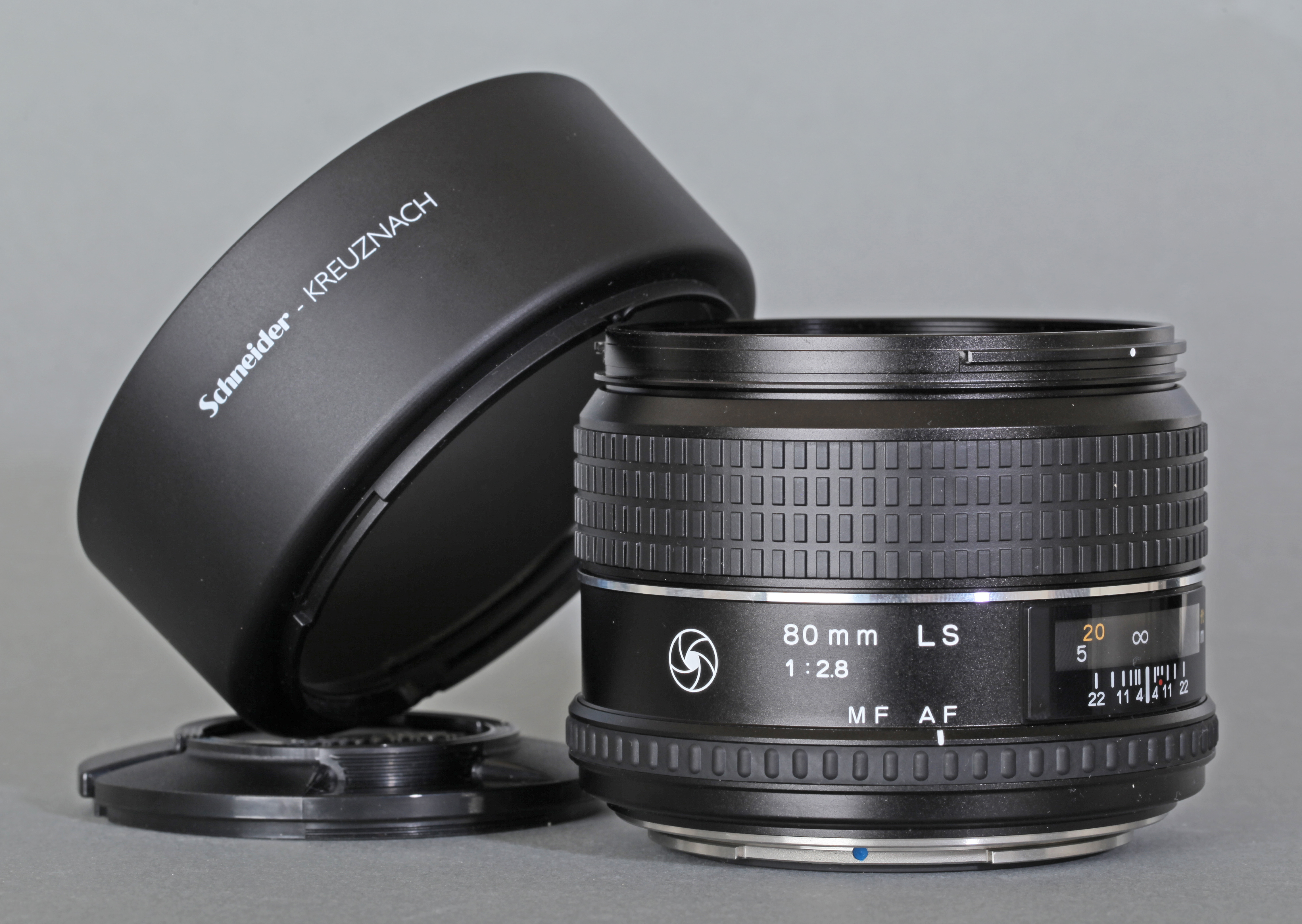 Schneider Kreuznach lens for the Phase One/Mamiya 645DF